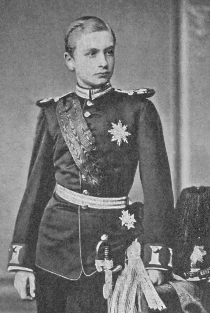 Prince Frederick Augustus around 1878 as a lieutenant